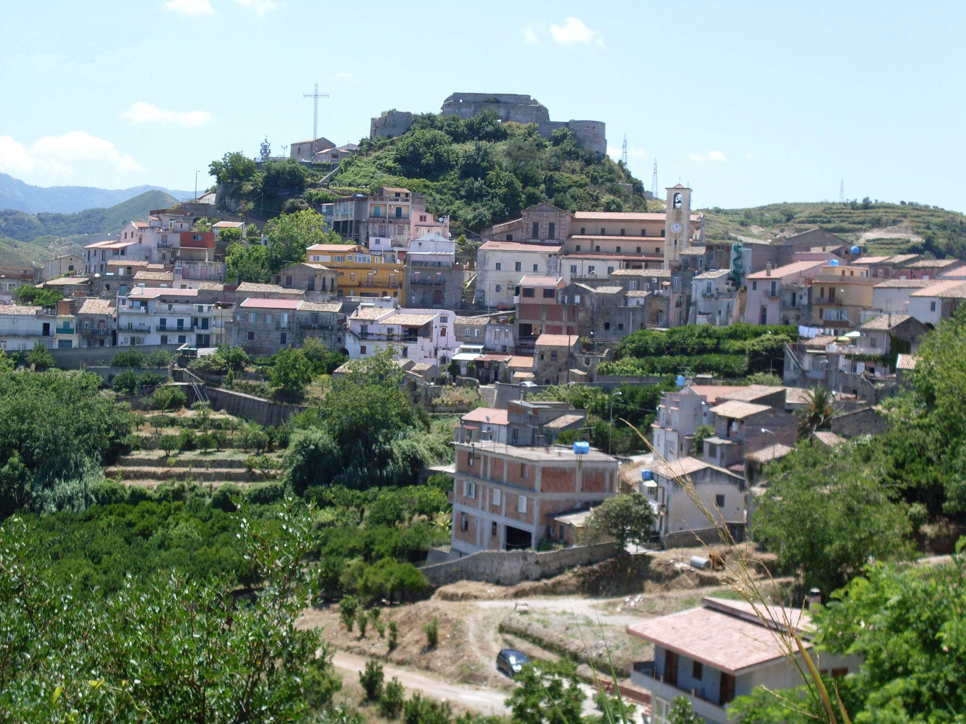 Northern view of Venetico Superiore with the ruined medieval castle.